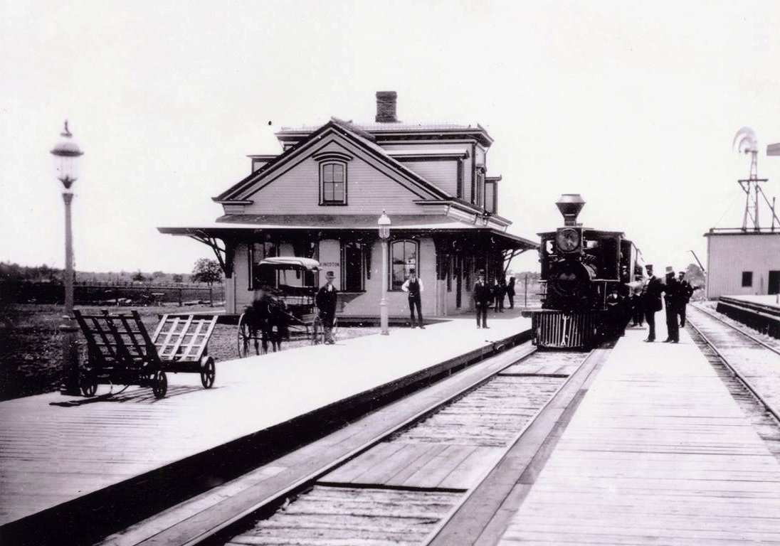 Railroad station in Kingston, Rhode Island soon after its 1875 opening